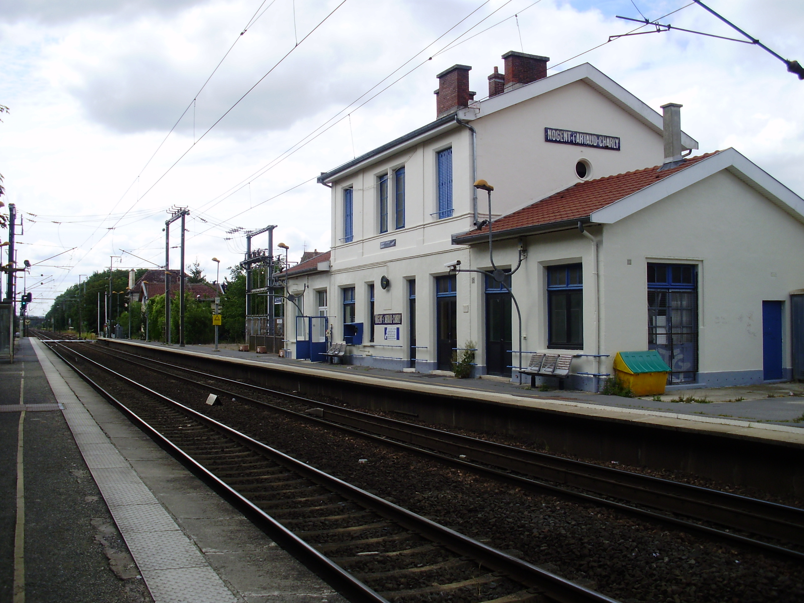 Nogent-l'Artaud - Charly station, in Nogent-l'Artaud, Aisne, France (view by looking to Paris)